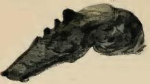 Stainton’s Natural History of the Tineina (1855–1873): Coleophora currucipennella larval case